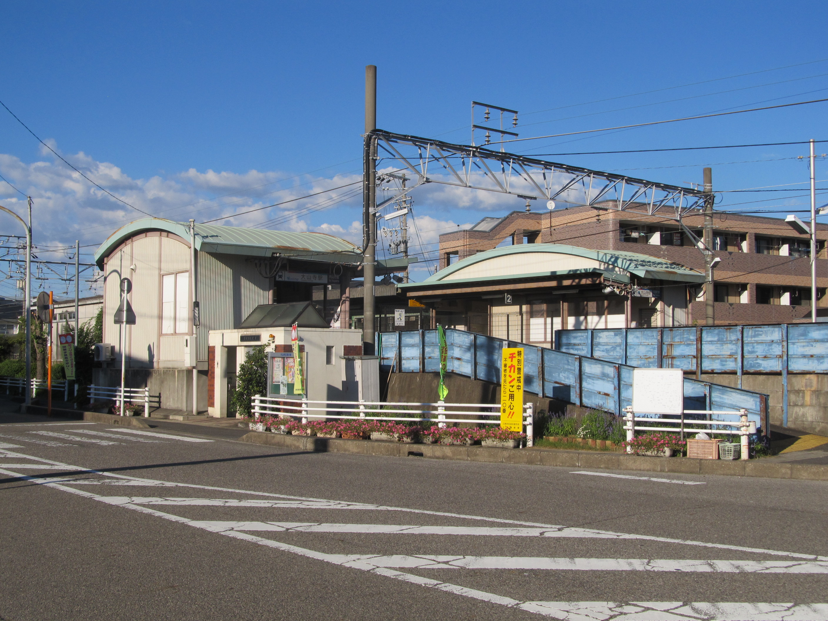 Nagoya Railroad Inuyama Line Taisanji Station Building